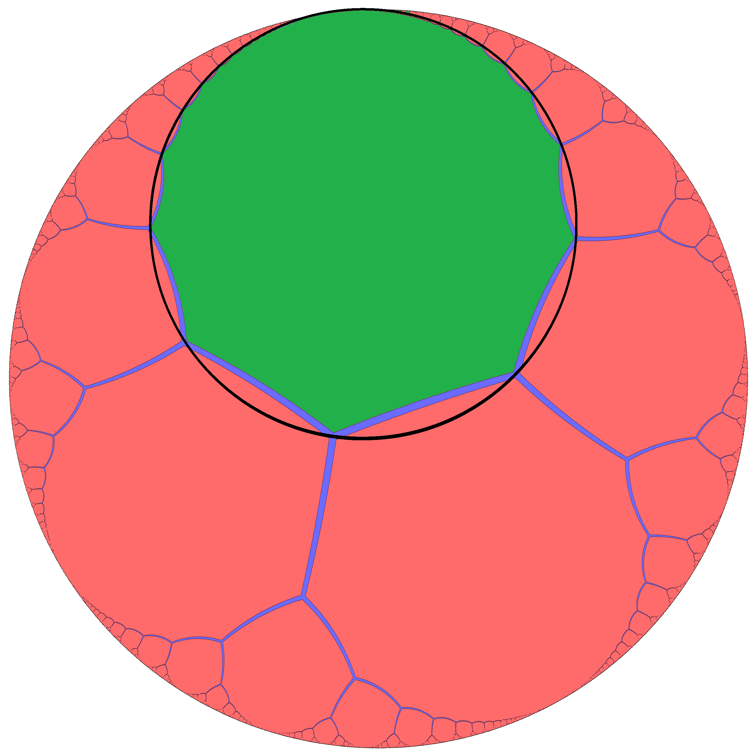 Recoloring from File:H2 tiling 23i-1.png with horocycle markup